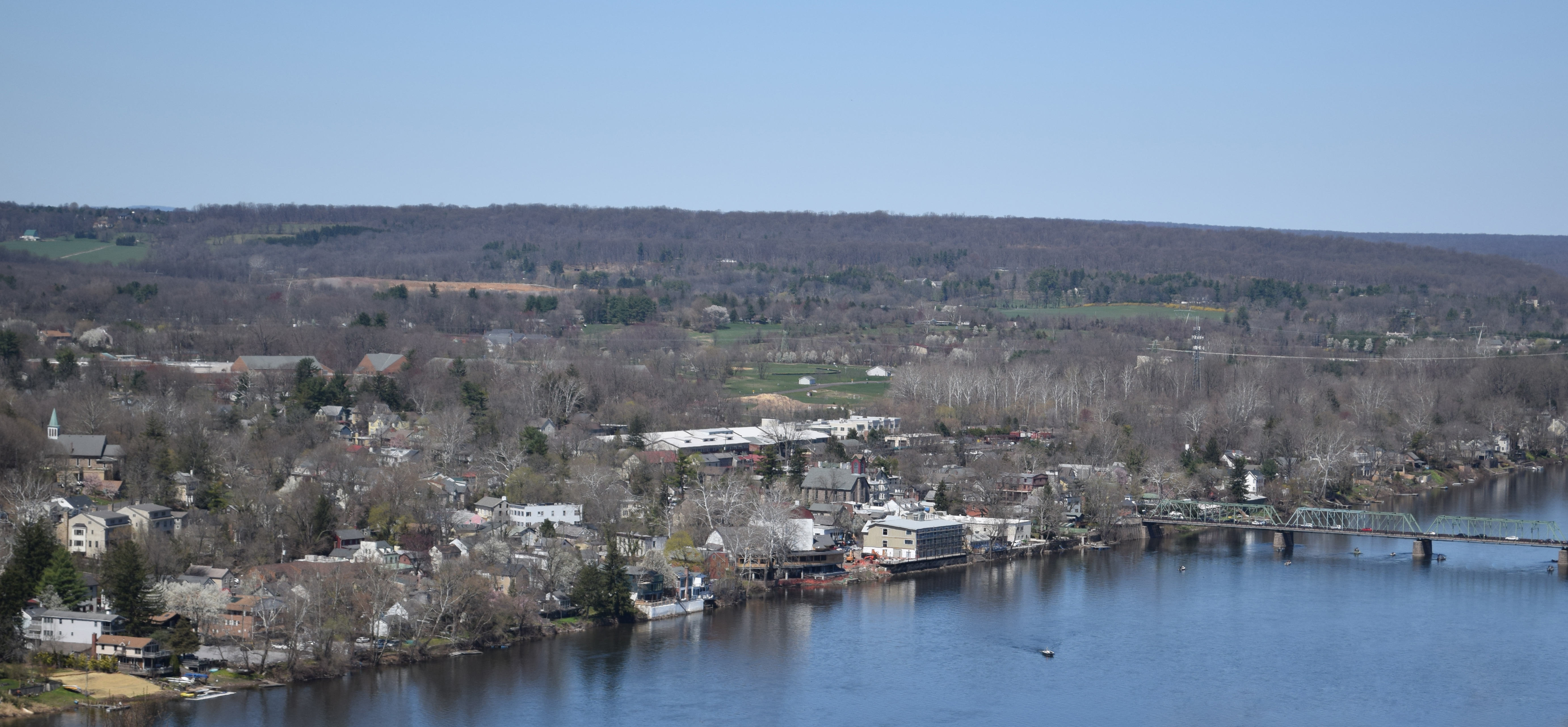 A view of New Hope, PA from Goat Hill Overlook Lambertville, NJ